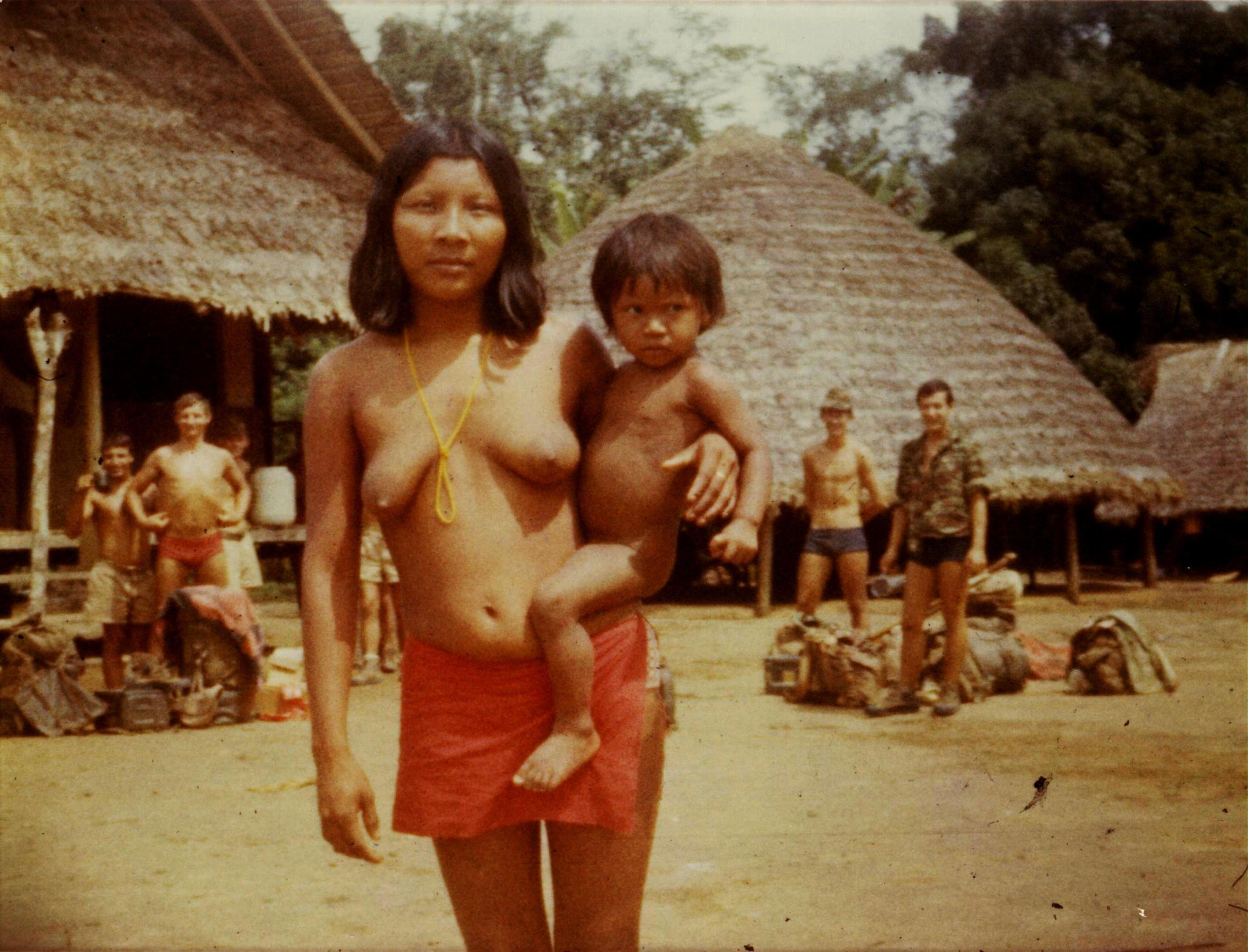 Photo taken in 1979. Daily life in the Wayana village of Antecume Pata in French Guiana. A mother and her son.